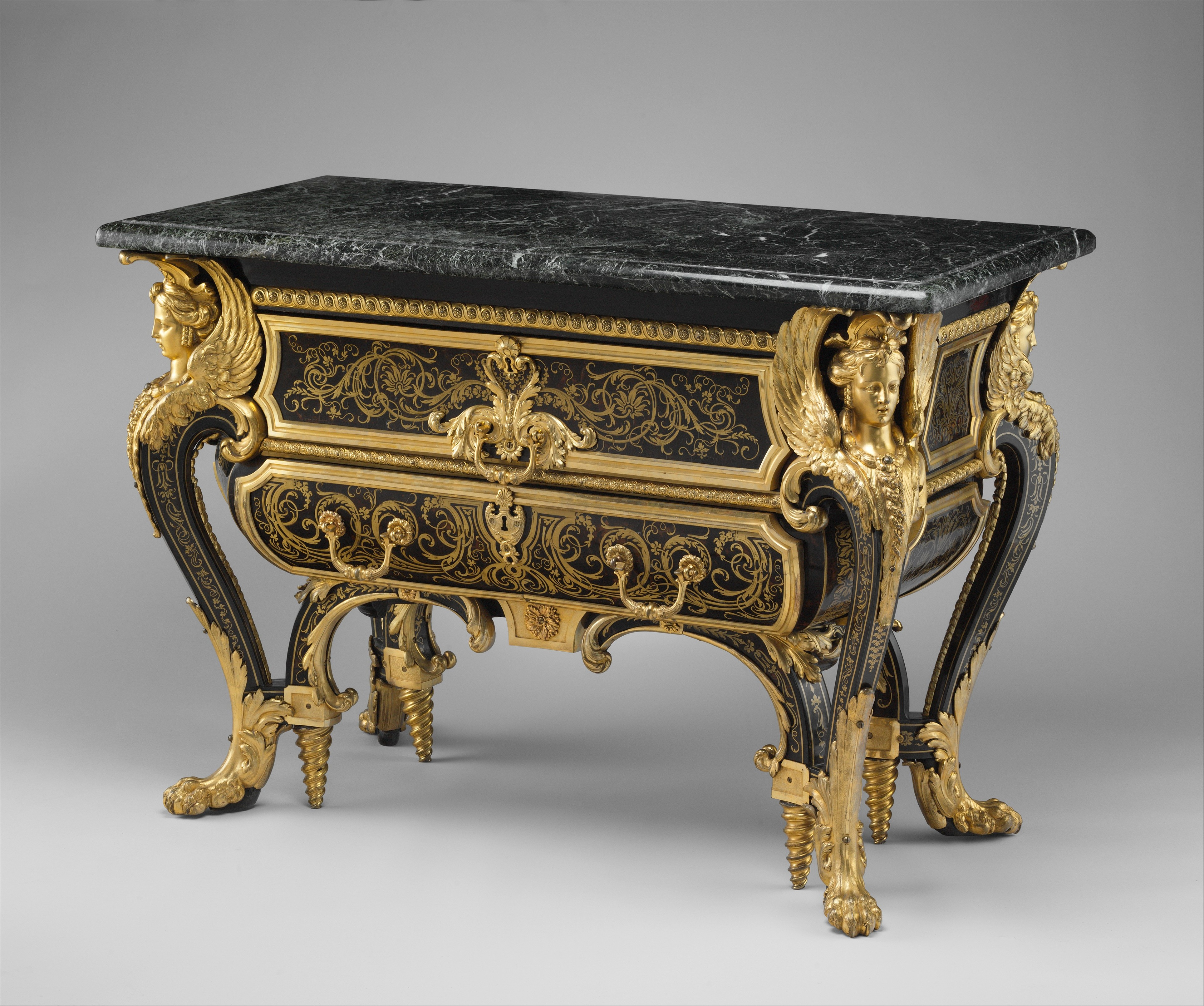 French; Commode; Woodwork-Furniture